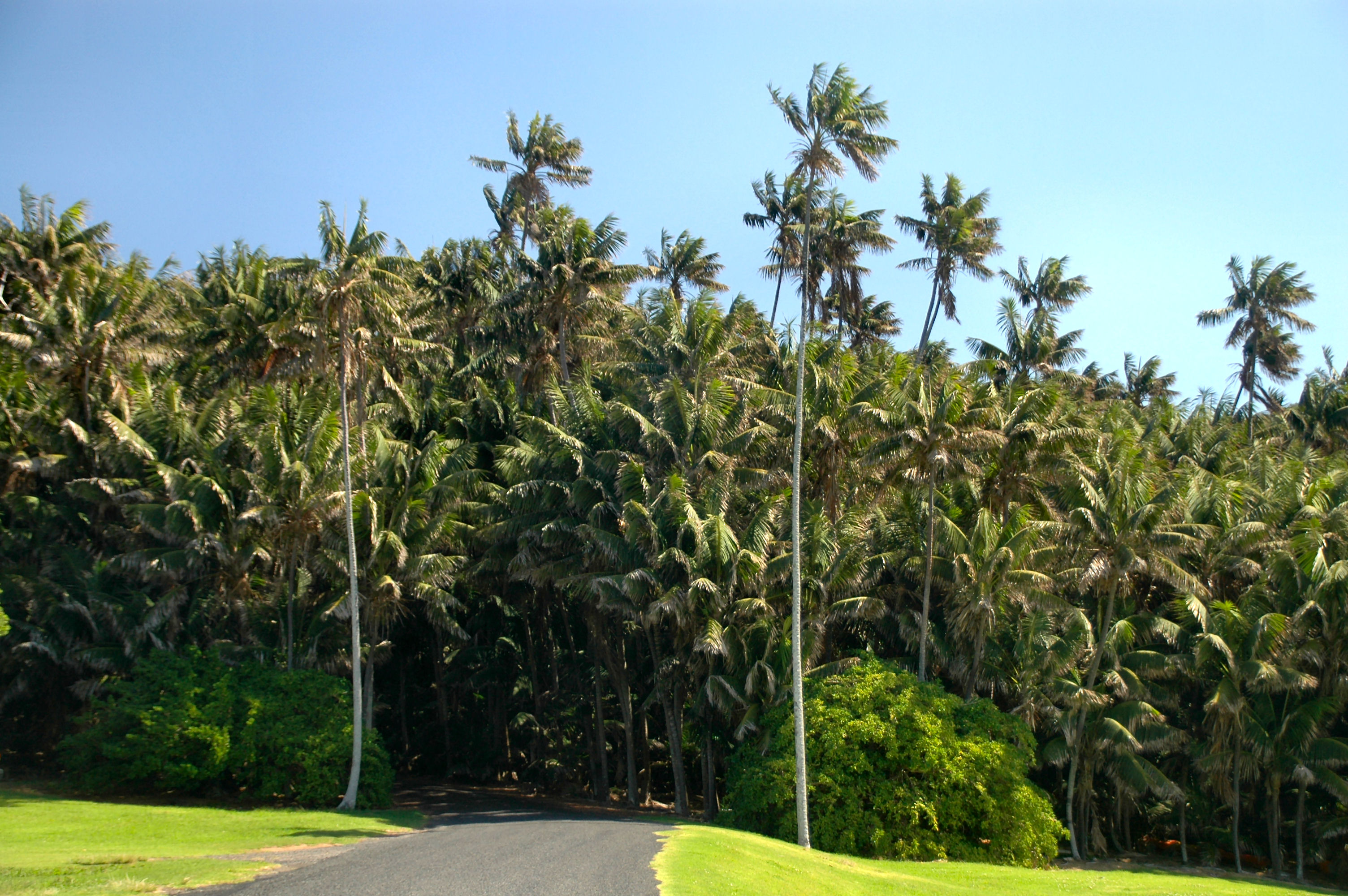 Howea forsteriana in its natural range at Neds Beach, Lord Howe Island, Australia. Common Names : Kentia Palm, Sentry Palm, Thatch Palm